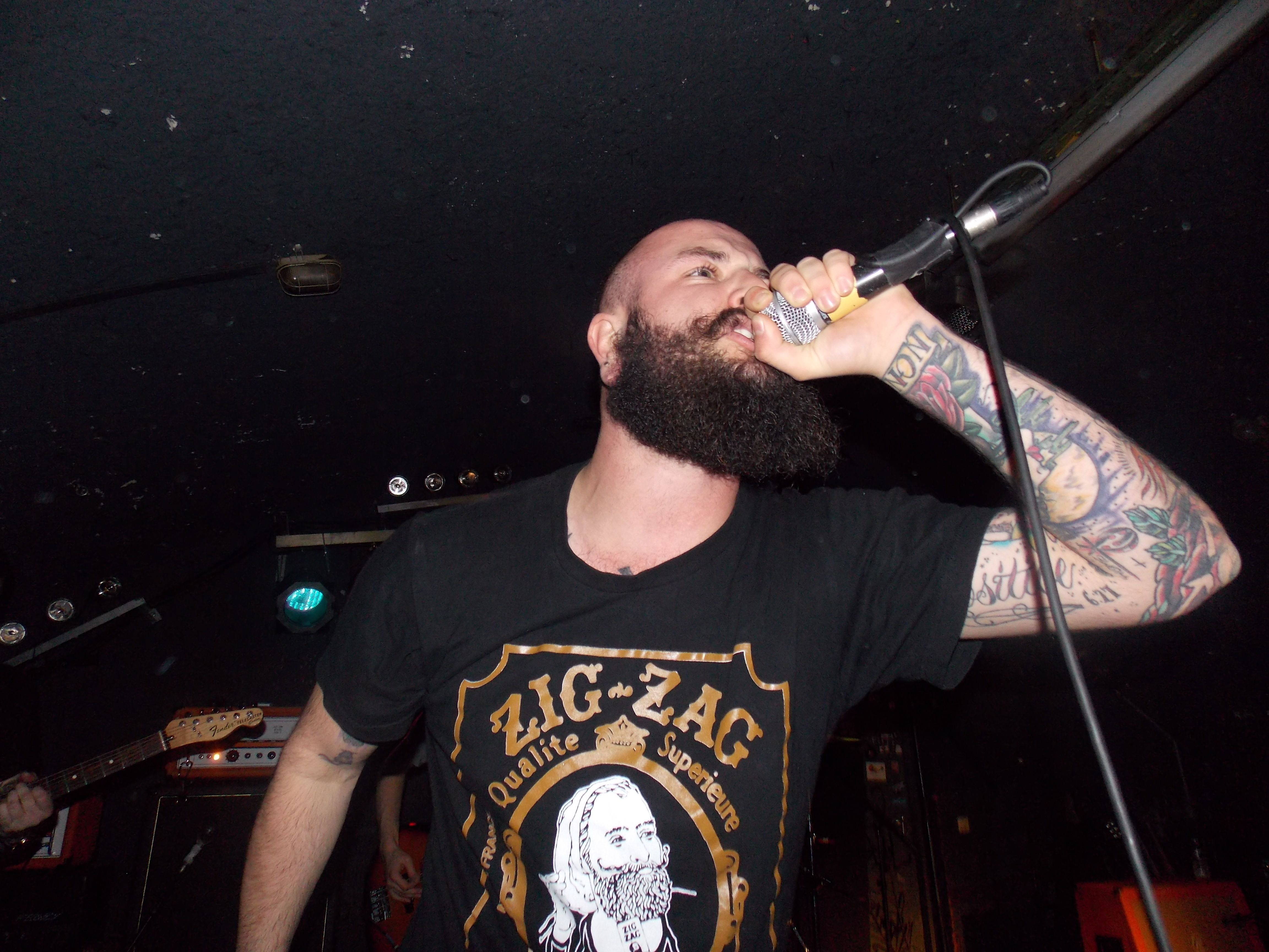 Joel Quartuccio, lead vocalist of Being as an Ocean performing in Trier in 2014.